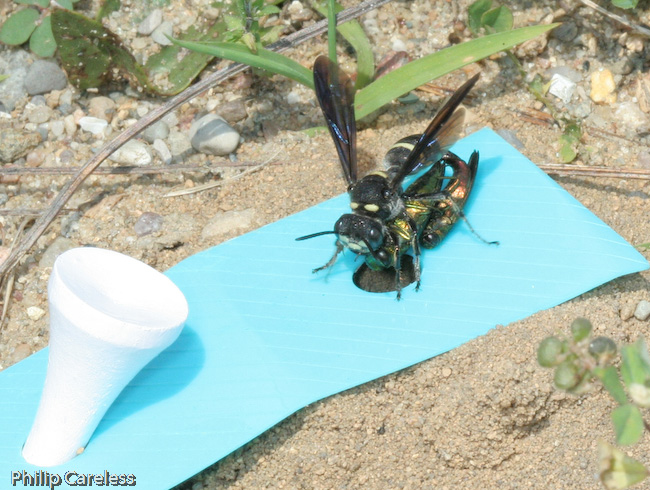 Cerceris fumipennis entering a nest with two prey beetles, mating emerald ash borers, in Windsor, Ontario, Canada.